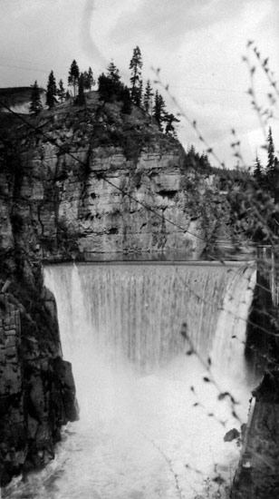 Water spilling over the Goat River Dam, near Creston, British Columbia.